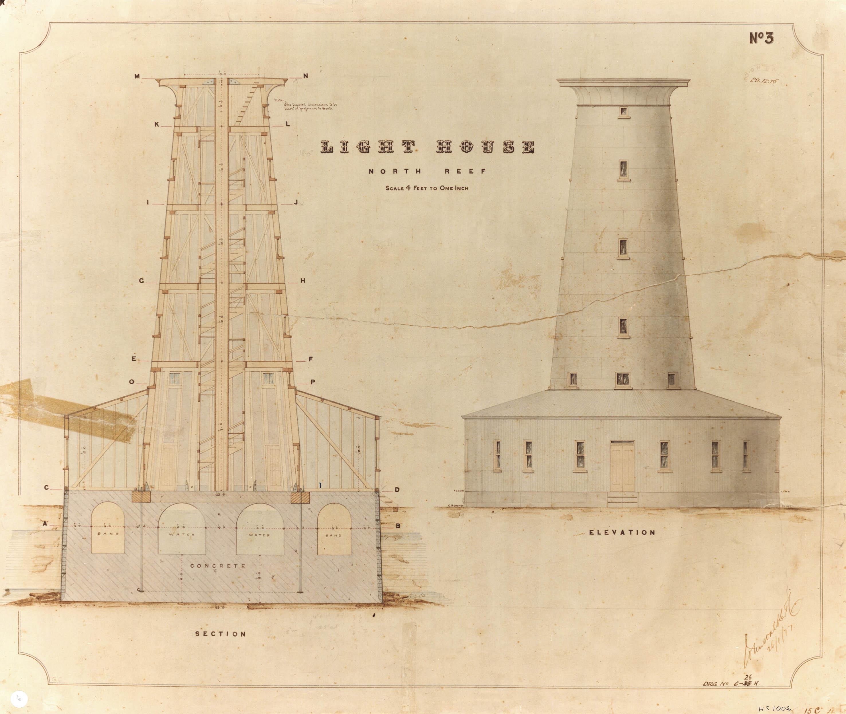 North Reef Lighthouse - Section and Elevation, 1877